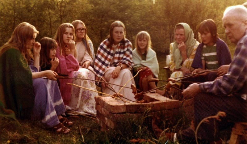 Mäenperä, Multia, Middle-Finland